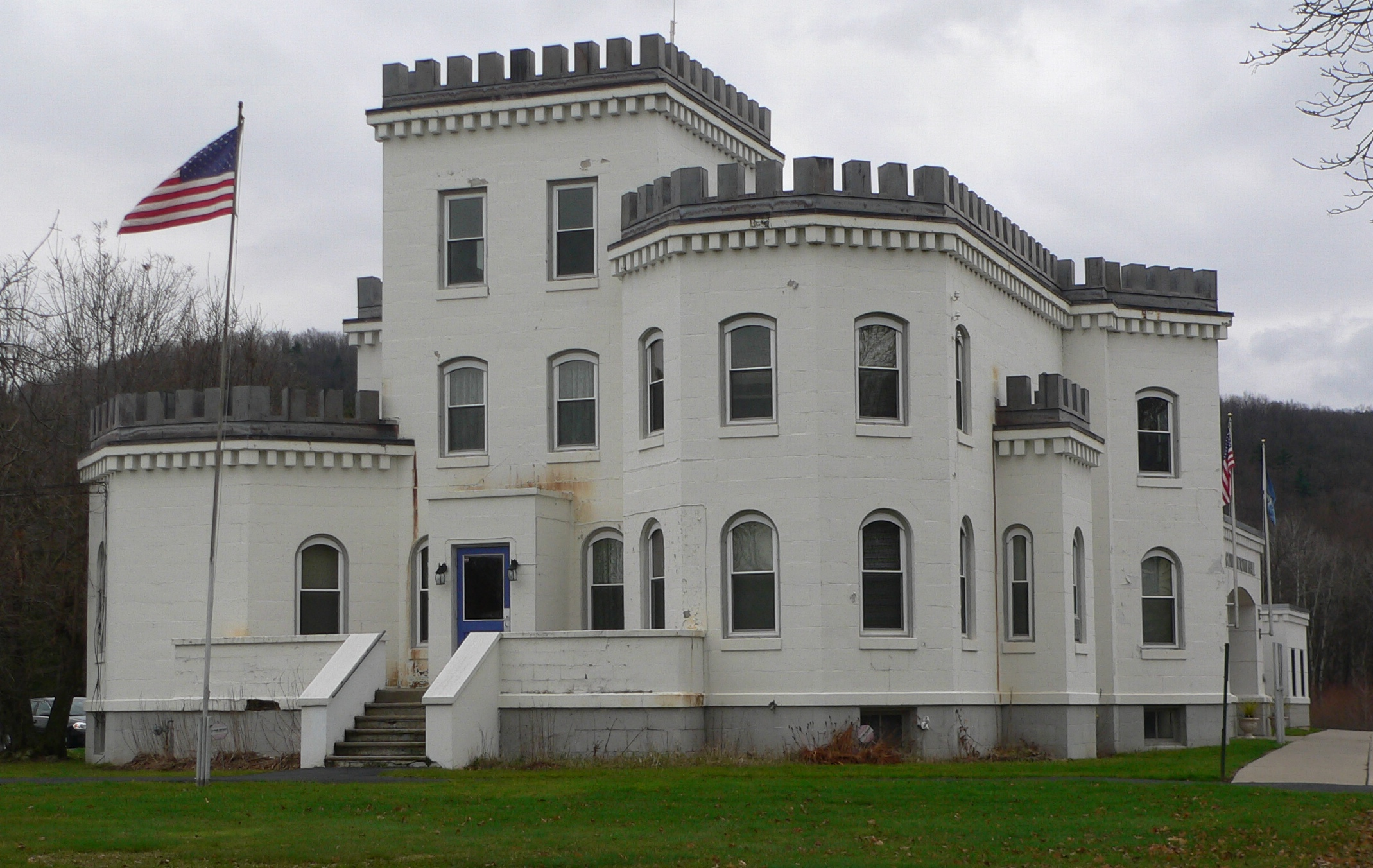 Conklin Town Hall, located at 1271 Conklin Road in Conklin, New York; seen from the southwest.